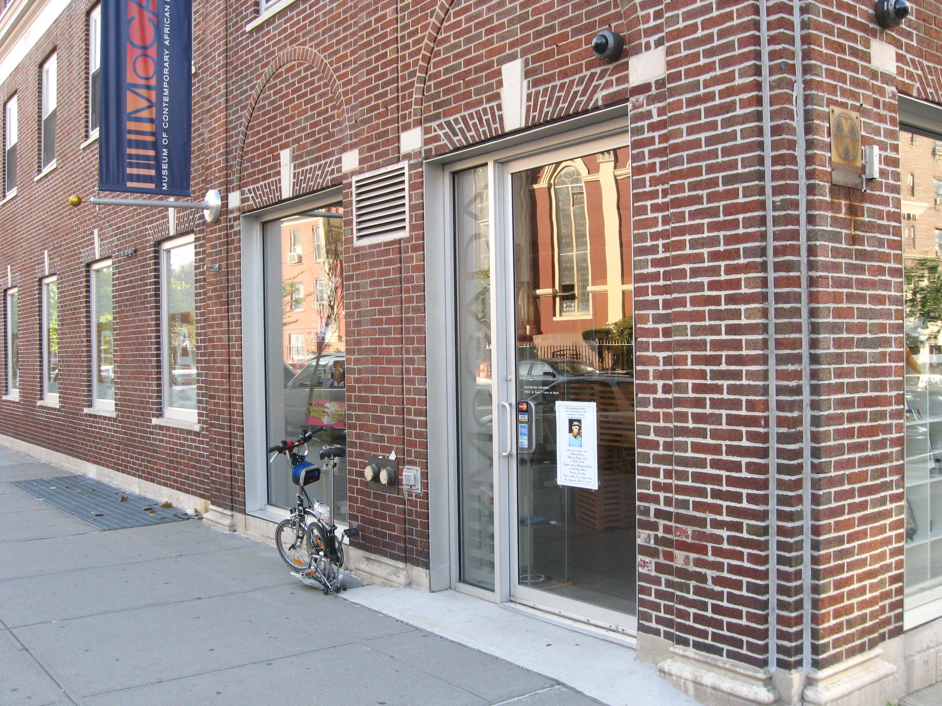 Museum of Contemporary African Diasporan Arts on a sunny early afternoon for WTM Goal #J15 This photo is of Wikis Take Manhattan goal code J15, Museum of Contemporary African Diasporan Arts.